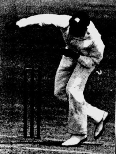 Learie Constantine bowling in Australia in 1930.